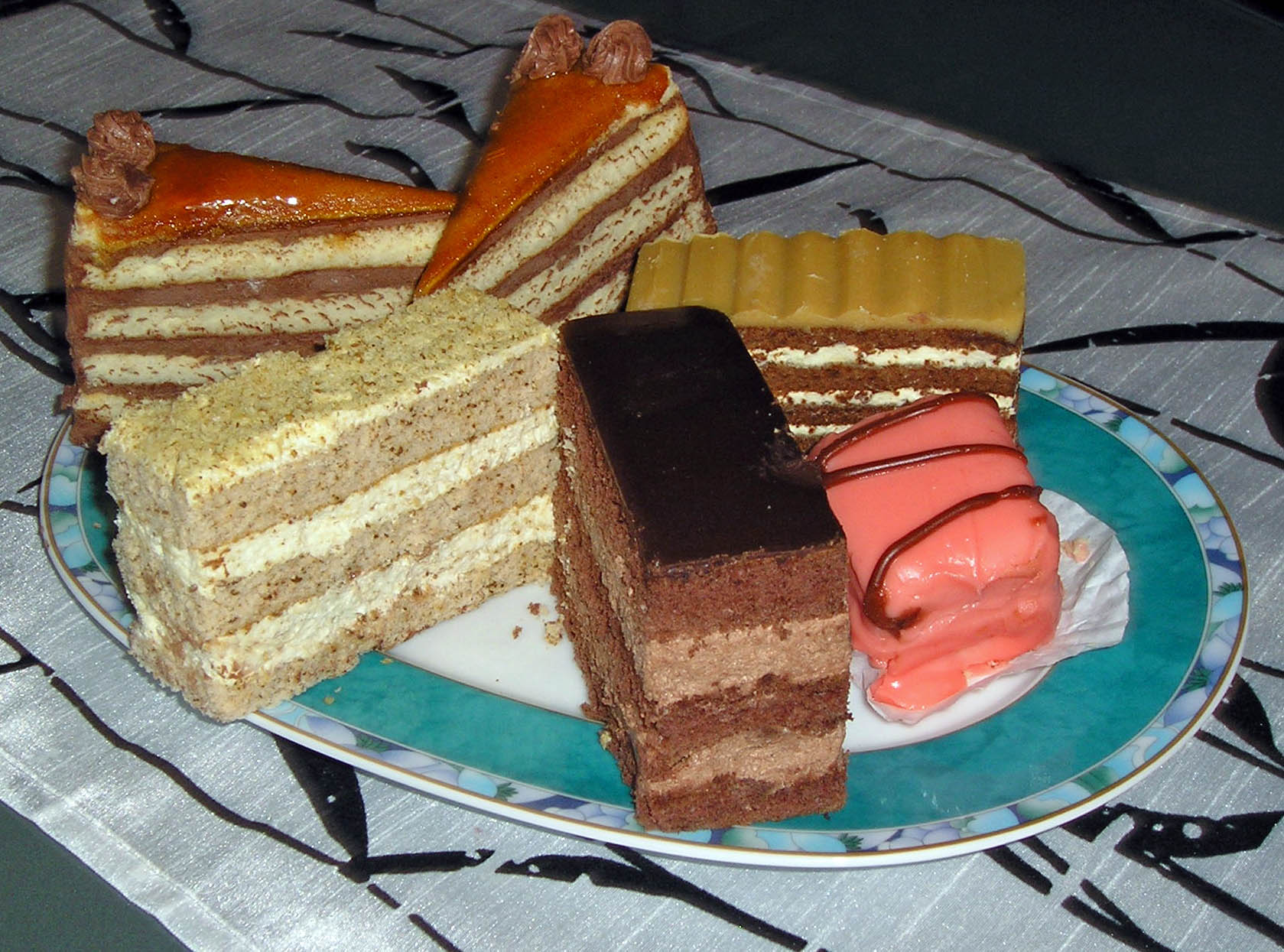 Several cakes